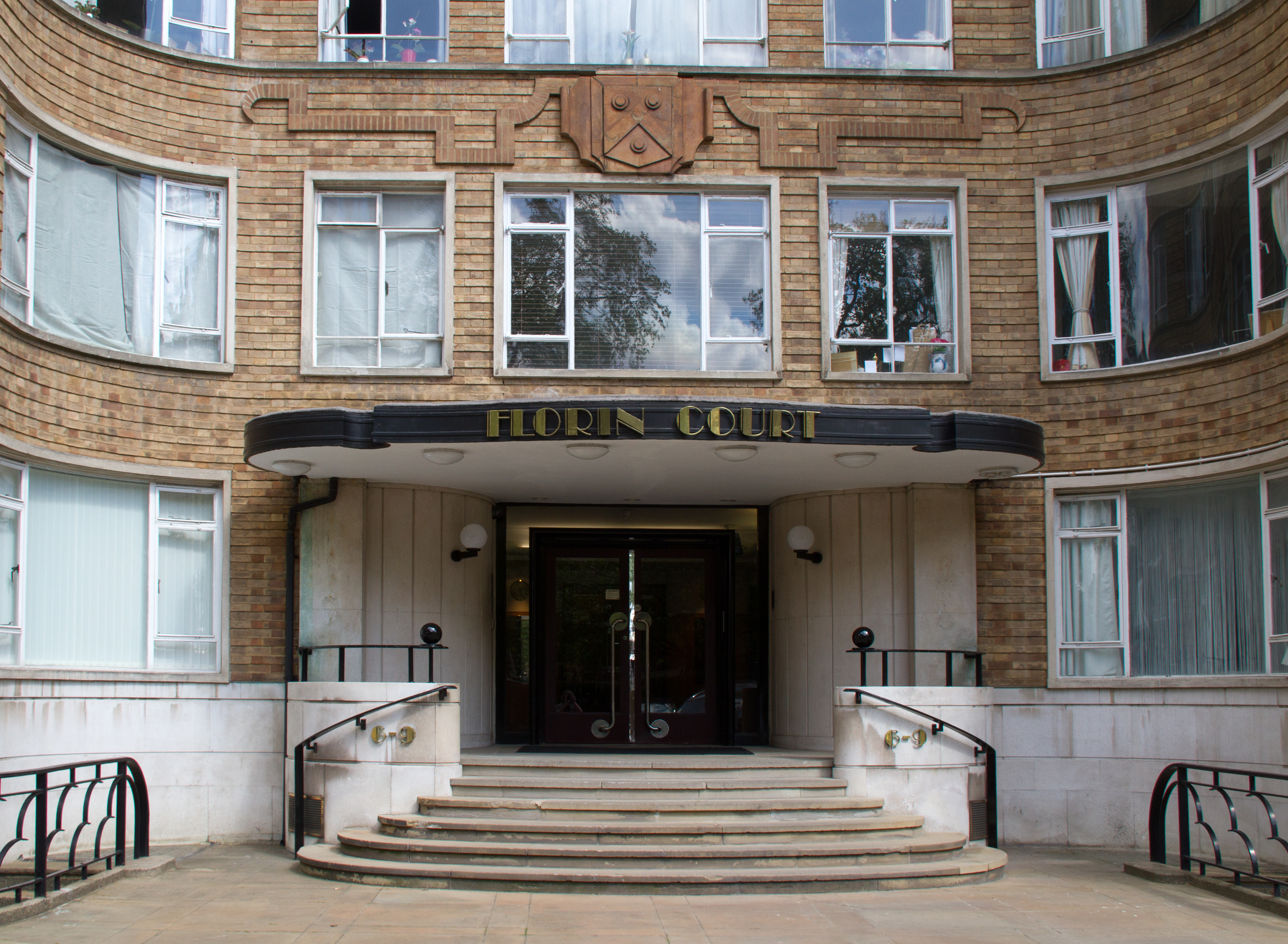 Front door of Florin Court.